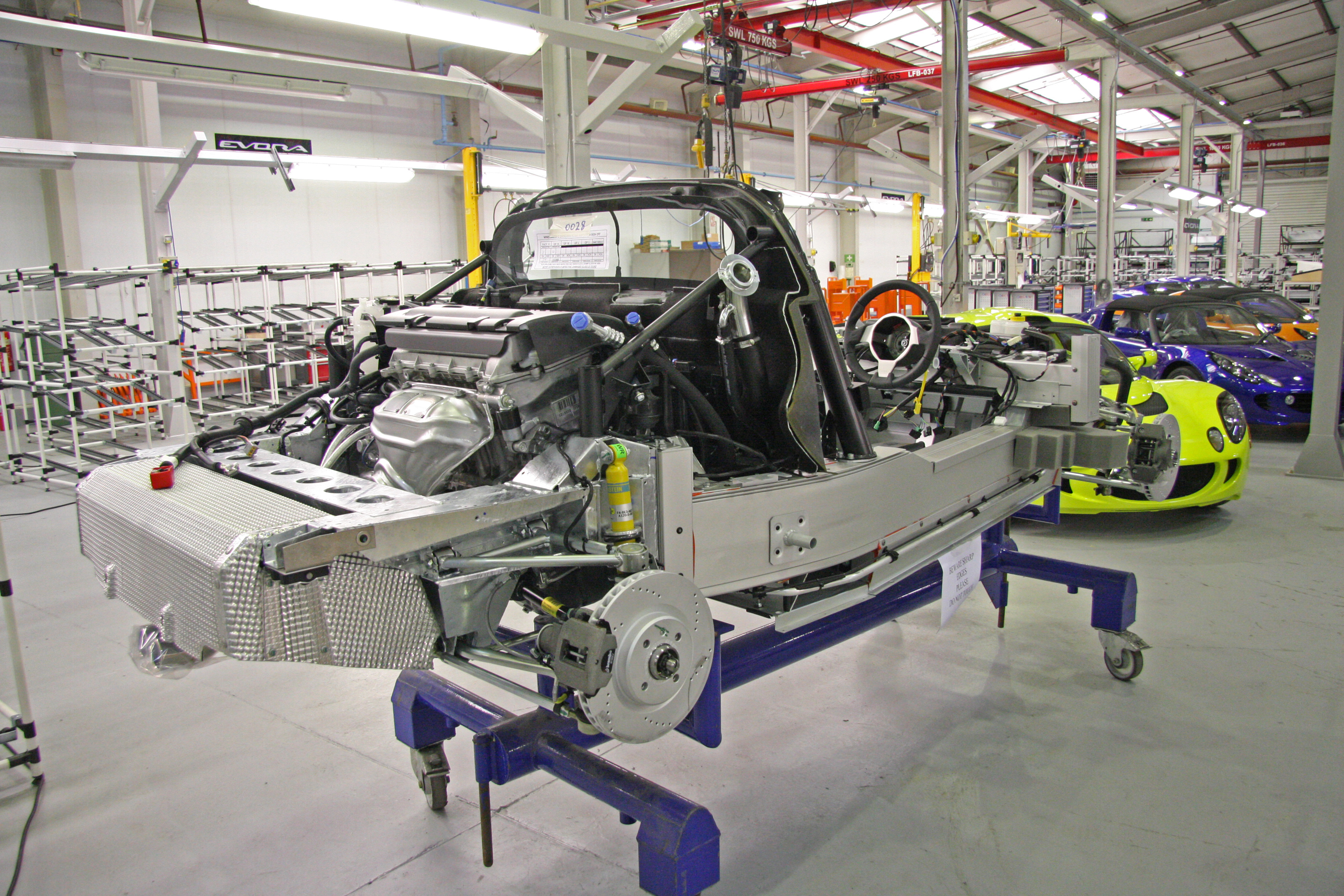 Lotus 60th Celebration